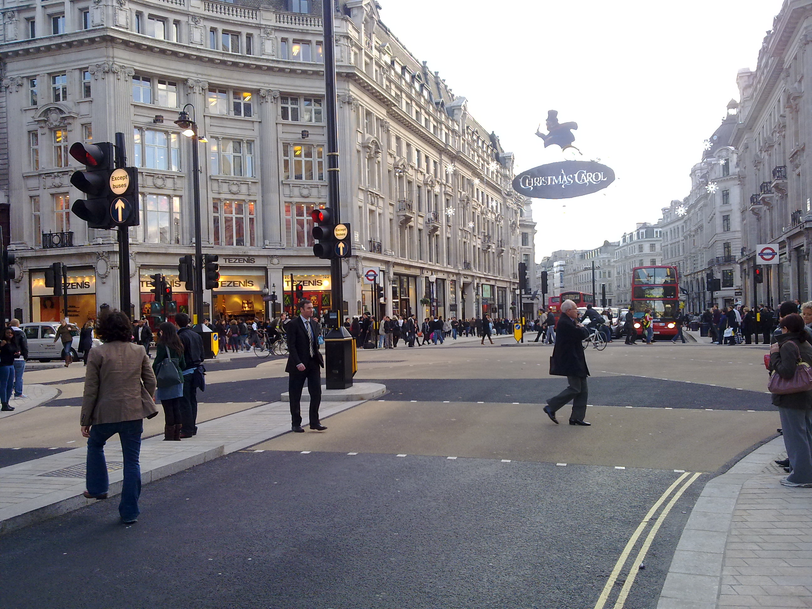 Just done my first x-ing of Oxford Circus. Not as exciting as I'd hoped.